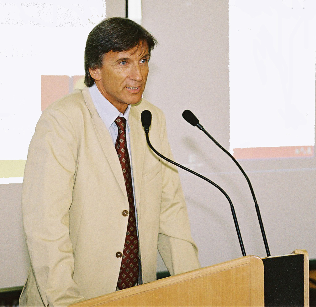 Dr. Anton Reiter bei einem Vortrag im Jahre 2005 in Wien